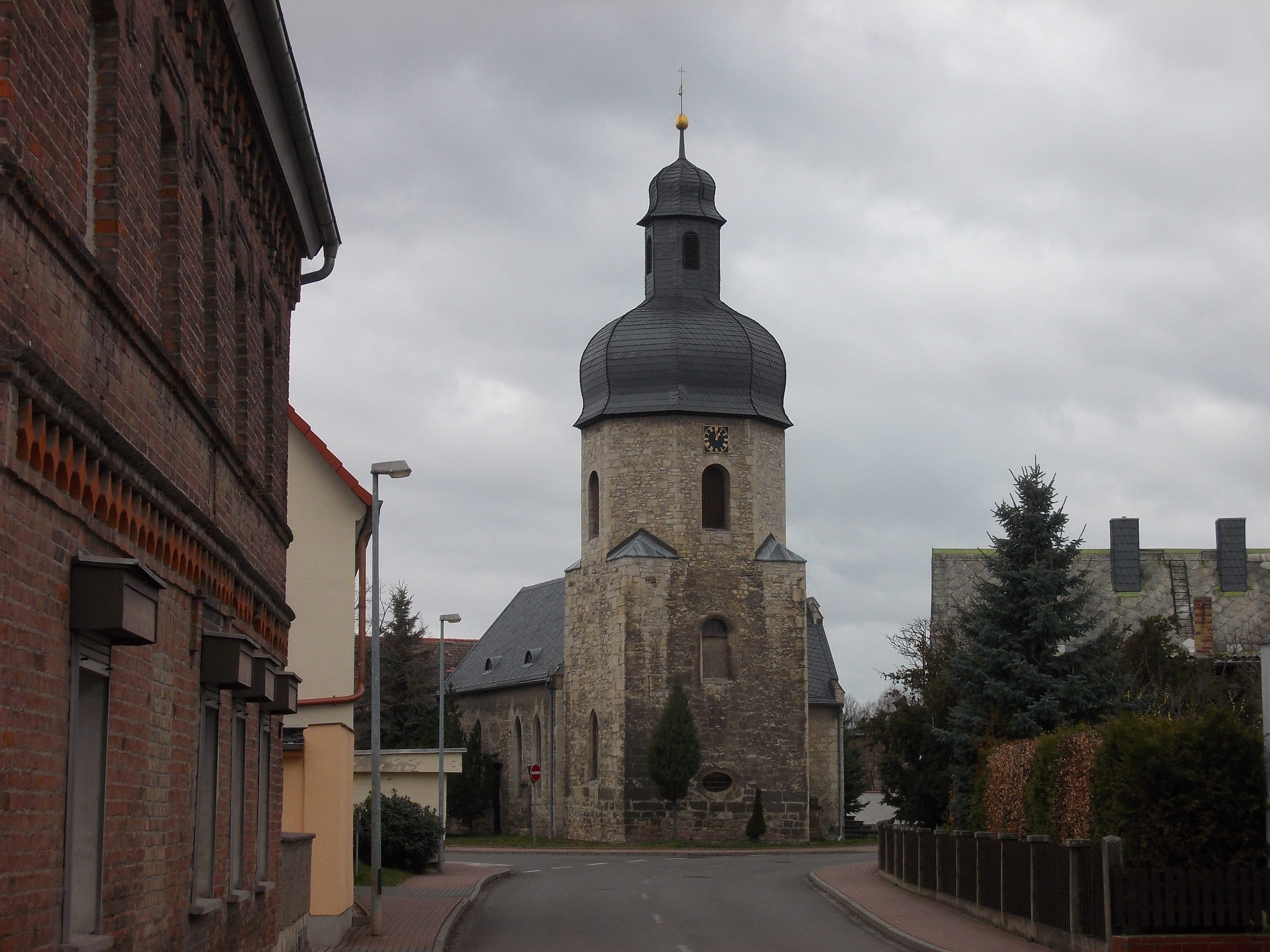 St. Henry's Church in Rossbach (Braunsbedra, district: Saalekreis, Saxony-Anhalt)